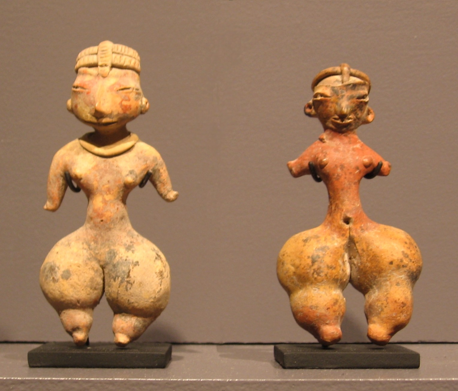 Two Tlatilco female culture figurines with exaggerated thighs, Manantial phase. Slipped and painted ceramics. Acording to the Snite Museum display placard, exaggerated thighs may be a sign of beauty. Note: according to the Snite Museum, the Manantial Phase lasted from 1300 BCE to 1000 BCE. Other authorities place this later. These discrepancies may be a result of C14 dating vs. chronological dating. See the English language article on the Tlatilco culture for a discussion of the dating.